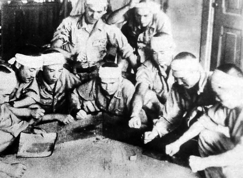 IJA Paratroopers study a scale-model of the Burauen airfield before Operation Te on Leyte, December 1944.